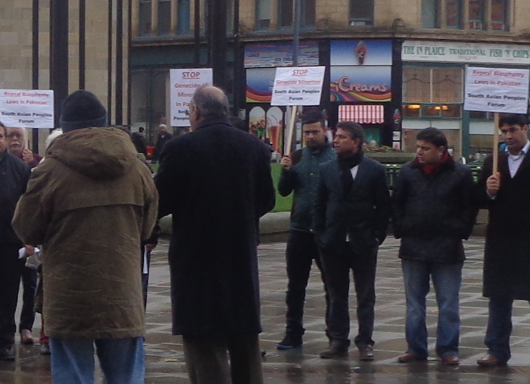 Anti-Pakistani blasphemy law protest, Centenary Square, Bradford, West Yorkshire. Taken on the afternoon of Saturday the 8th of November 2014.